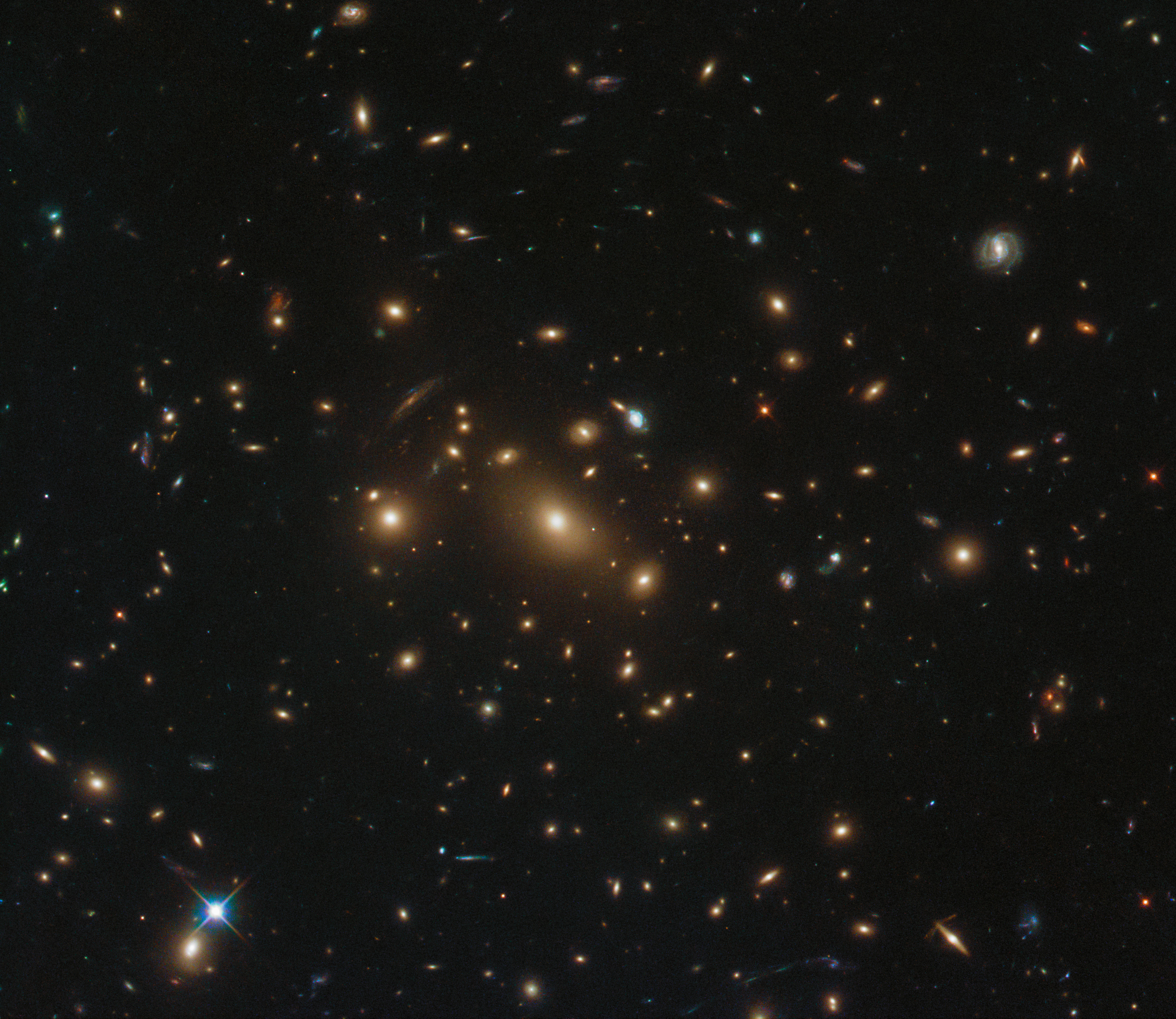 In astronomy, the devil is in the details — as this image, taken by the NASA/ESA Hubble Space Telescope’s Advanced Camera for Surveys and Wide-Field Camera 3, demonstrates. The numerous fuzzy blobs and glowing shapes scattered across this image make up a galaxy cluster named RXC J0949.8+1707. Located to the upper right of the frame sits an especially beautiful and interesting barred spiral galaxy, seen face-on. In the past decade, astronomers peering at this galaxy have possibly discovered not one but three examples of a cosmic phenomenon known as a supernova, the magnificently bright explosion of a star nearing the end of its life. The newest supernova candidate is nicknamed SN Antikythera, and can be seen to the lower right of the host galaxy This shone brightly in visible and infrared light over a number of years before fading slightly. The two other supernovae, nicknamed SN Eleanor and SN Alexander, were present in data collected in 2011 but are not visible in this image, which was taken a few years later — their temporary nature unambiguously confirmed their status as supernovae. If future observations of RXC J0949.8+1707 show SN Antikythera to have disappeared then we can most likely label it a supernova, as with its two older (and now absent from the images) siblings. This image was taken as part of an observing programme called RELICS (Reionization Lensing Cluster Survey). RELICS imaged 41 massive galaxy clusters with the aim of finding the brightest distant galaxies for the forthcoming NASA/ESA/CSA James Webb Space Telescope (JWST) to study.